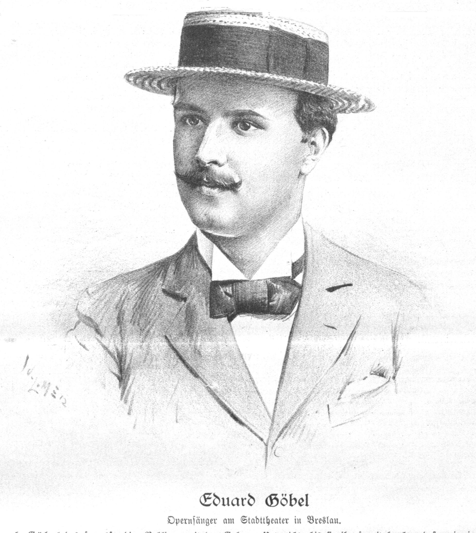 Portrait of Eduard Göbel (1867-1945), German actor and singer.